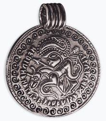 A cropped version of the Seeland-II-C bracteate to be used in the Ancient Germanic studies WikiProject template.